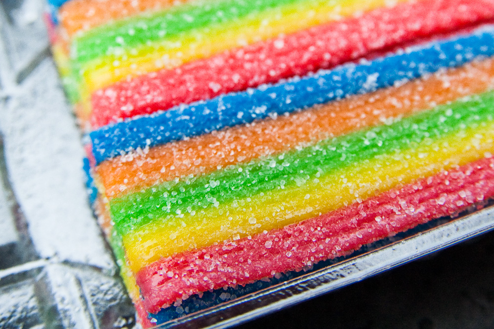 For Macro Monday Dualism -- Sweet and Sour